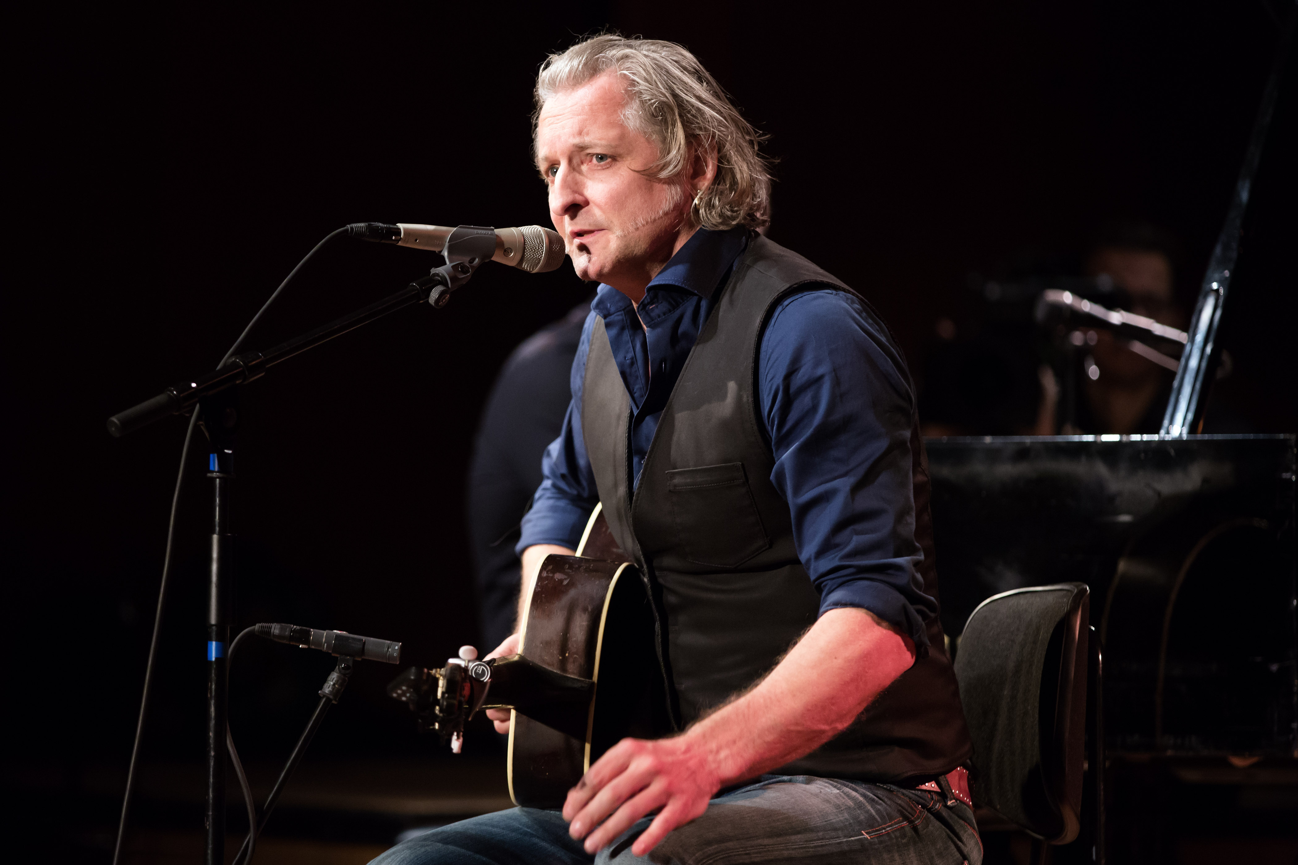 Sir Oliver Mally, concert at the charity event An Evening for Licht ins Dunkel 2015 at Radiokulturhaus/Funkhaus Wien in Vienna, Austria.